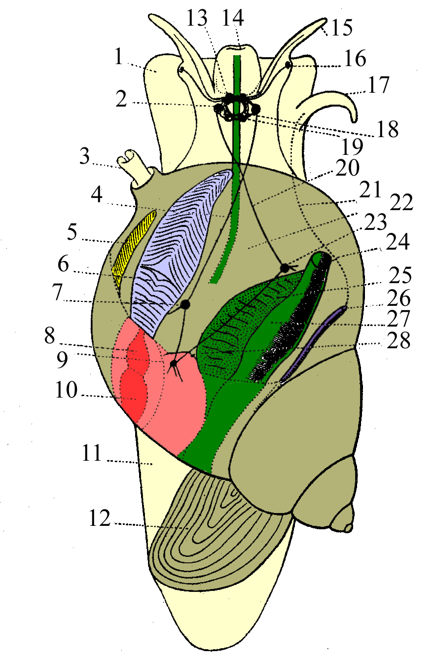 Drawing of male Prosobranchia gastropod.